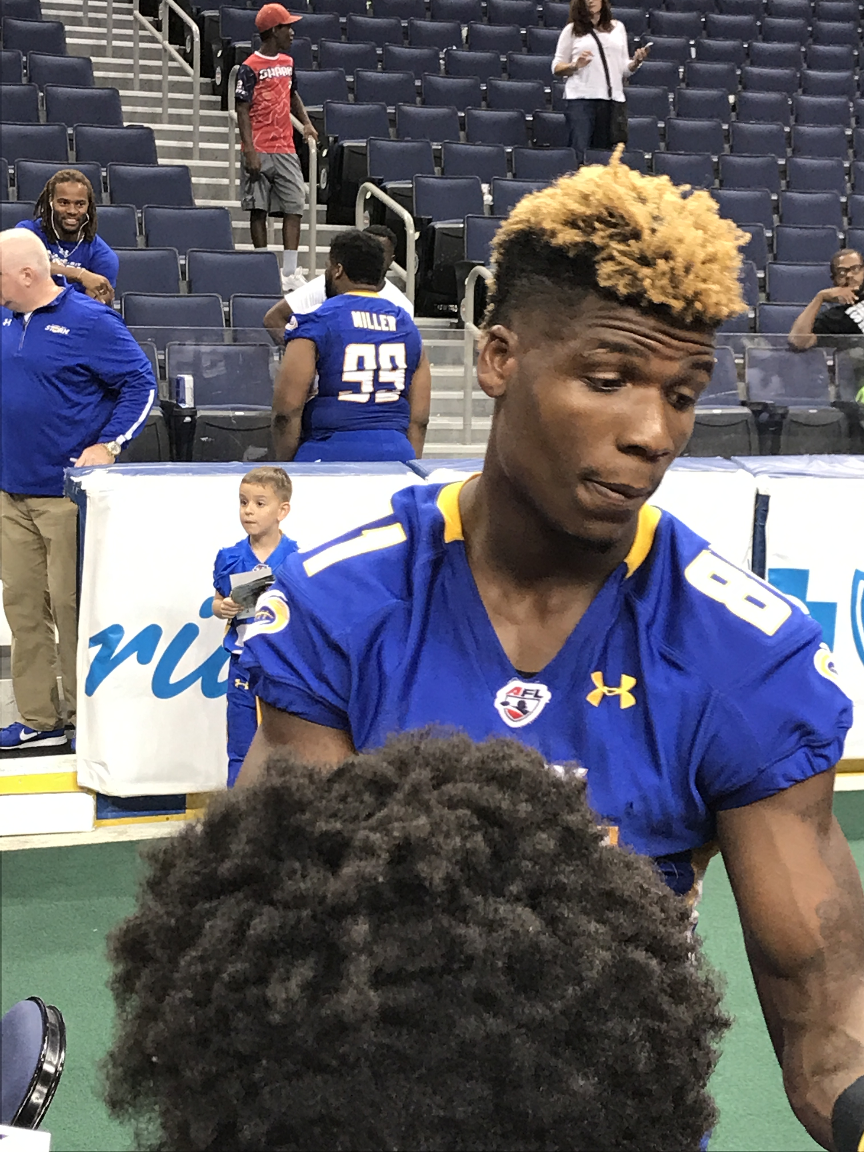 Joe Hills postgame